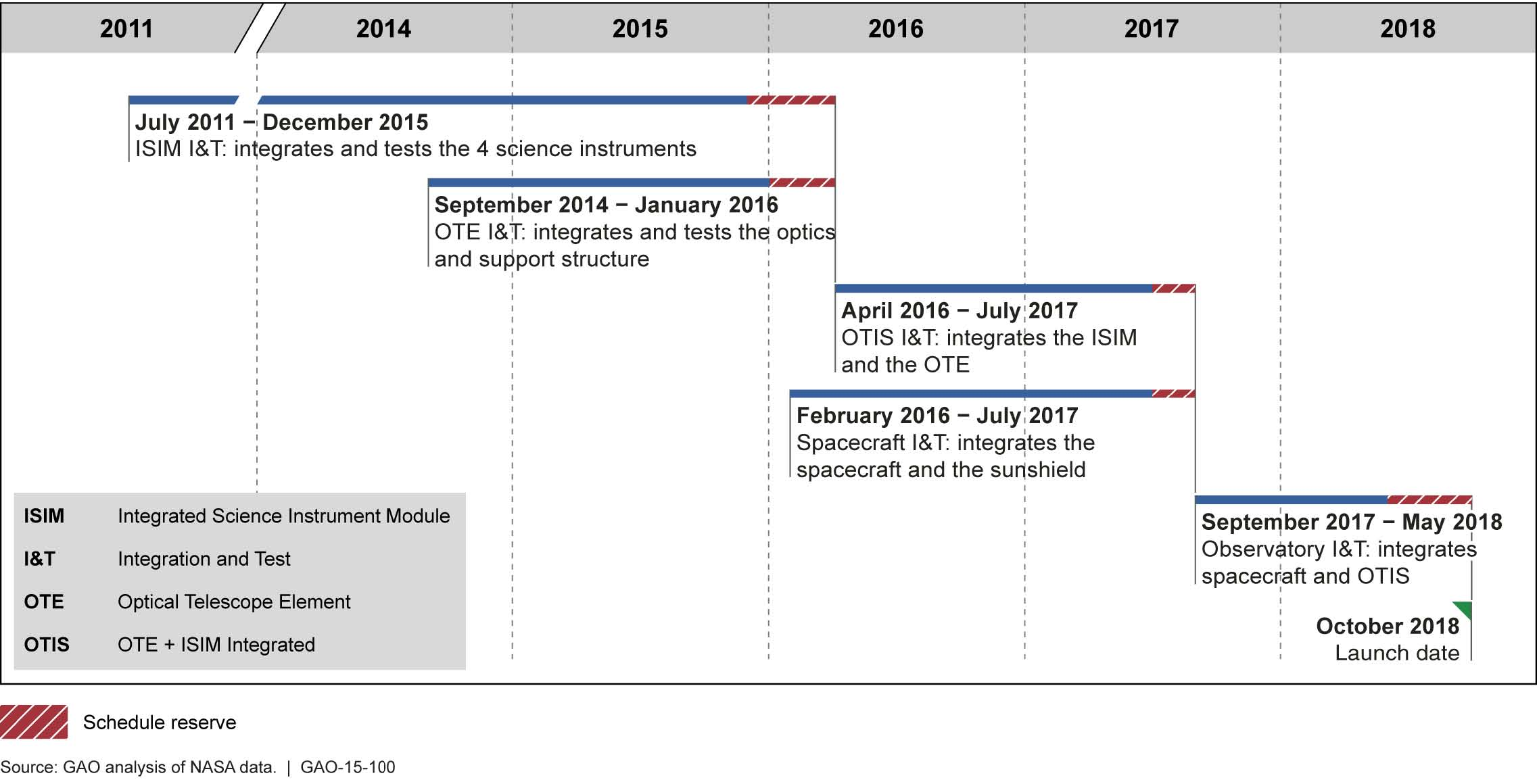 This image is excerpted from a U.S. GAO report: JAMES WEBB SPACE TELESCOPE: Project Facing Increased Schedule Risk with Significant Work Remaining Note: There are multiple lower level I&T efforts that flow in to the ISIM, OTE, and Spacecraft I&T flow that are not depicted on figure 2. For example, the sunshield is a major subsystem that has its own I&T effort that ends with delivery for Spacecraft I&T.